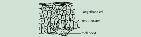 ligging melanocyten, keratinocyten en cellen van Langerhans